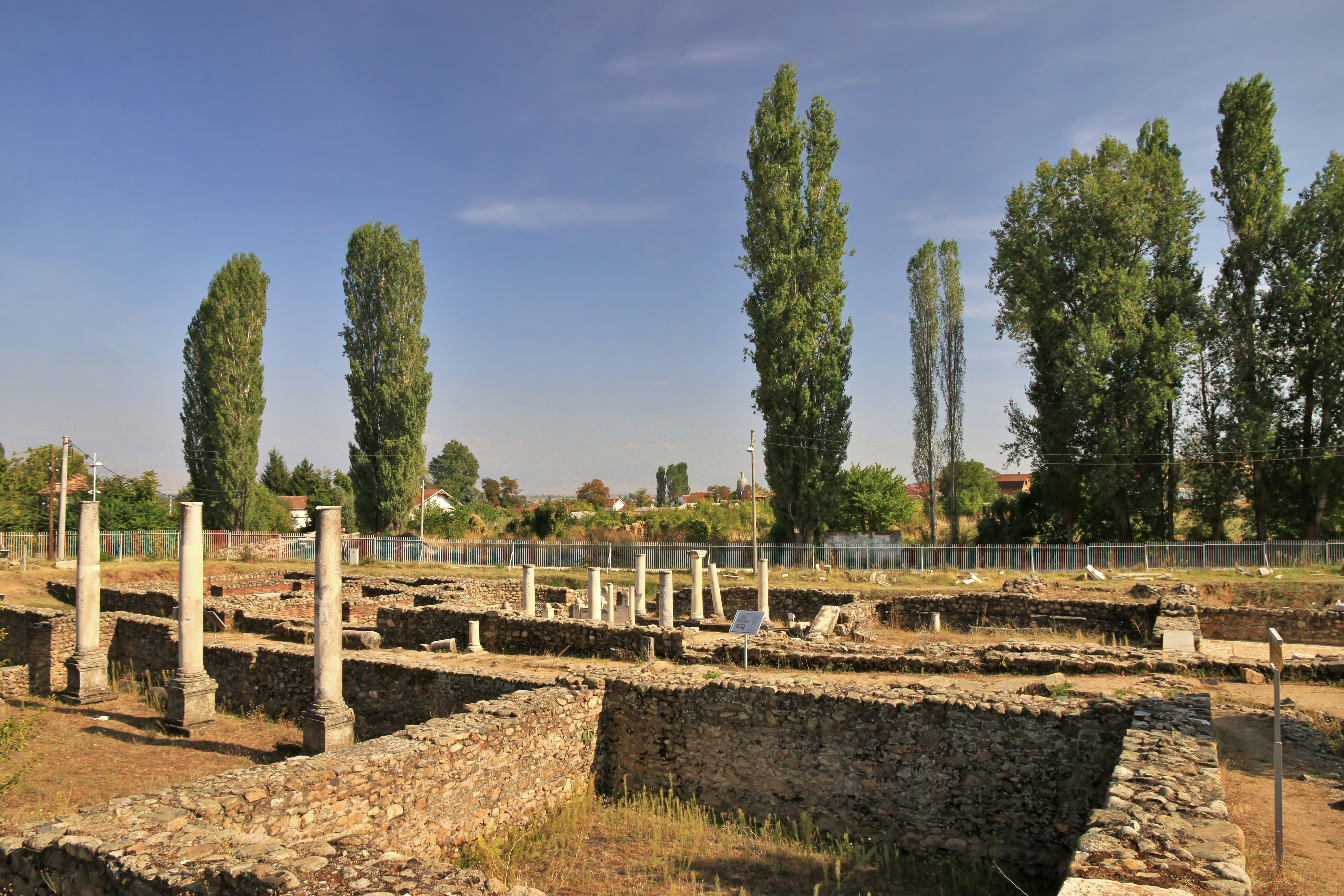 Heraclea Lyncestis. Bitola, Macedonia.